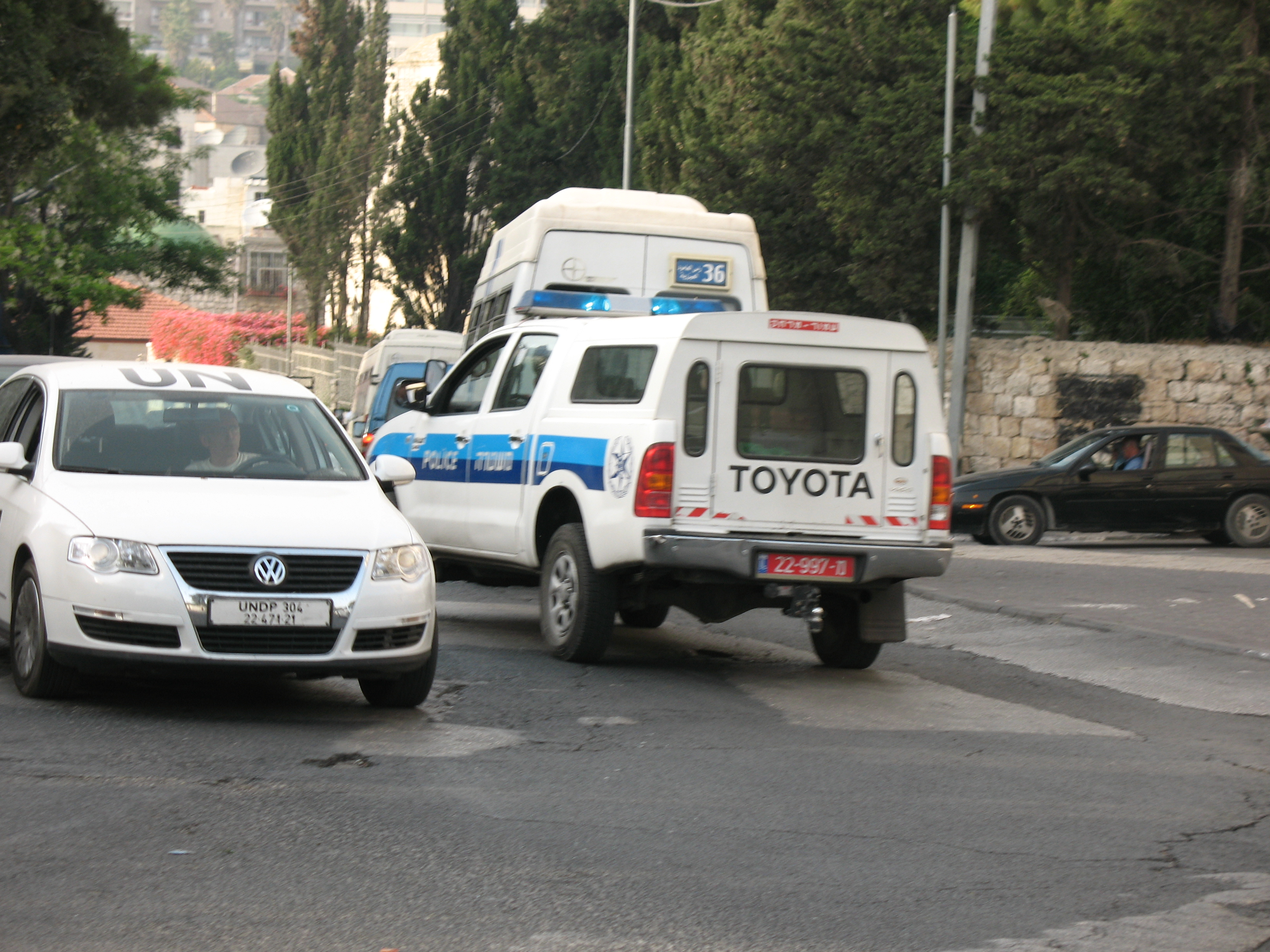 Police Toyota and UN Volkswagen_1806 Pictures taken around Jerusalem (excluding Old City).